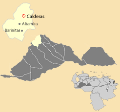 Parroquia Calderas Map